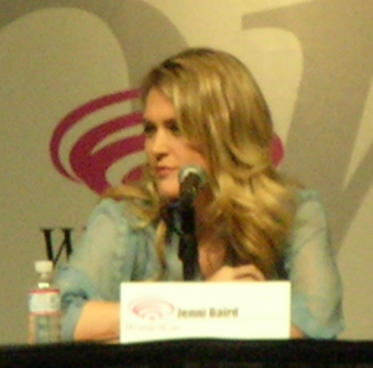 Jenni Baird participating in an Alien Trespass panel at WonderCon 2009.